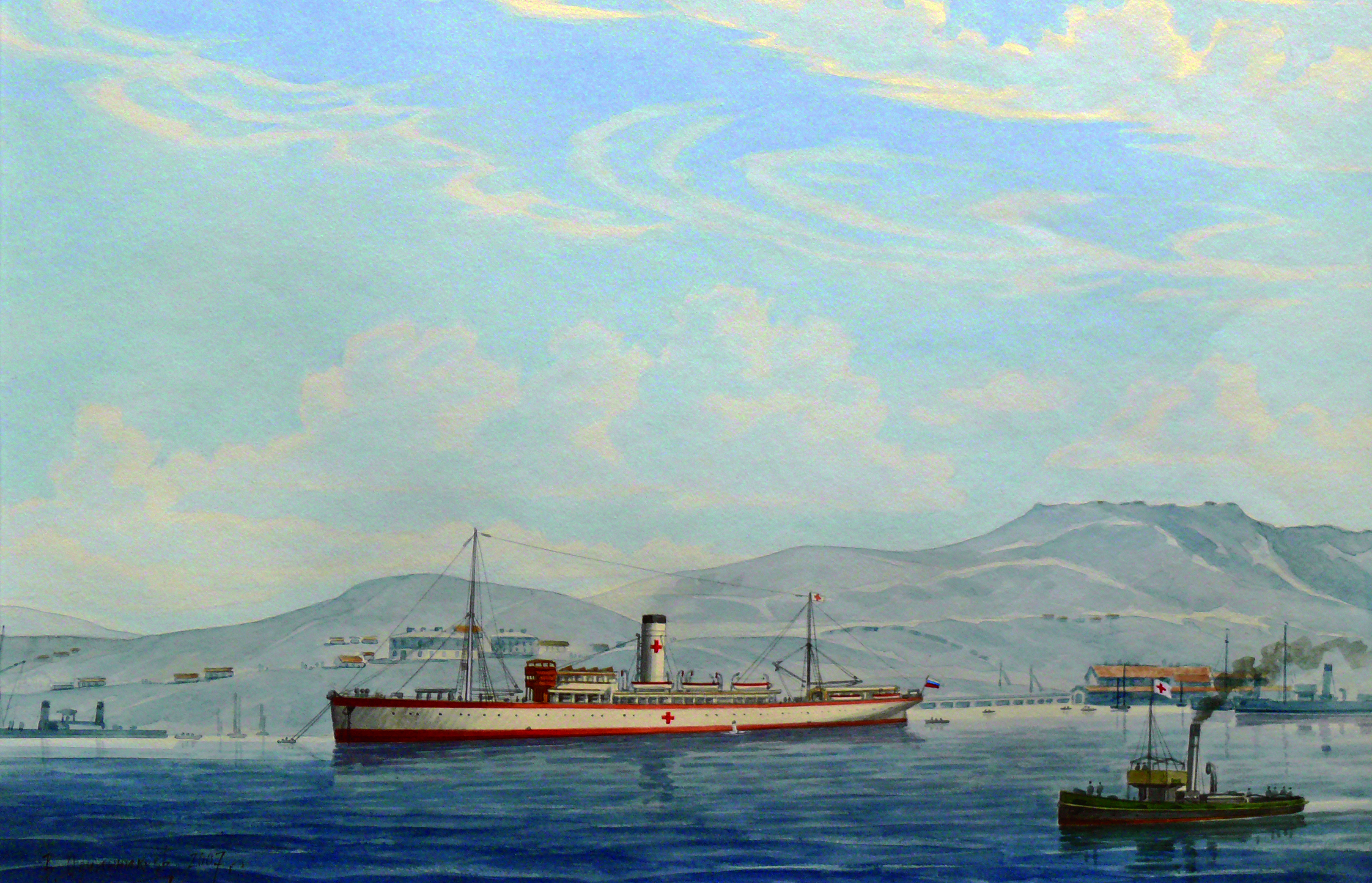 Mongolia Hospital ship in Port Arthur